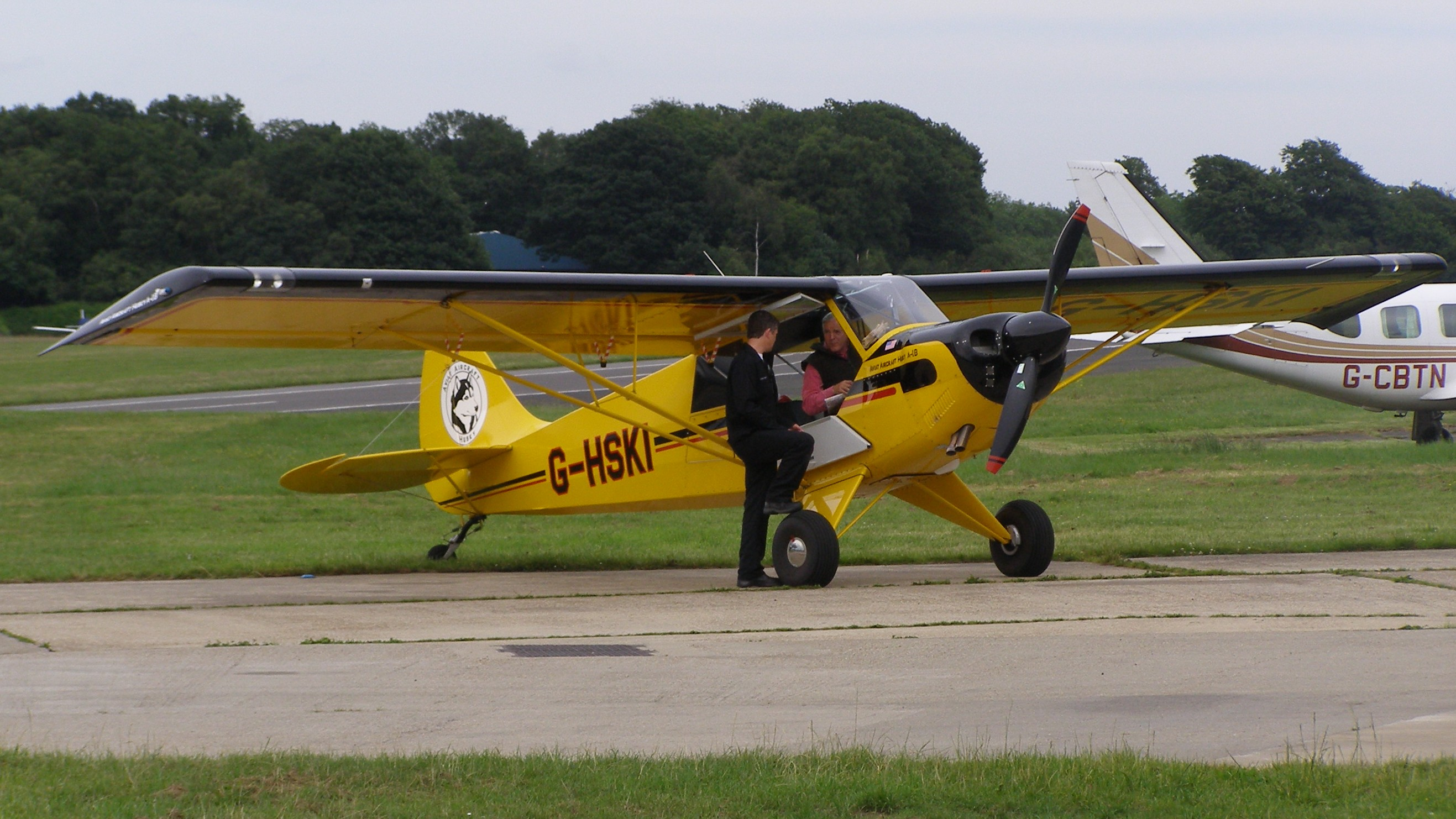 G-HSKI a 2005-built Aviat A-1B Husky at Biggin Hill, England in 2007